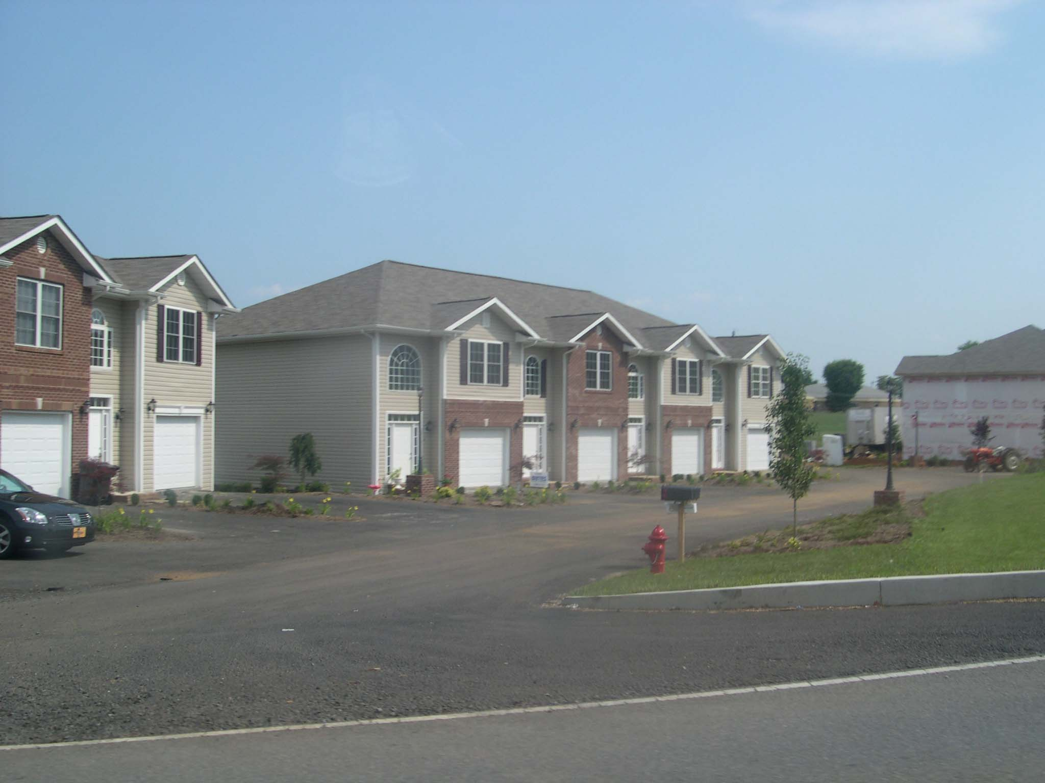 A group of townhouses in Bristol, Tennessee.